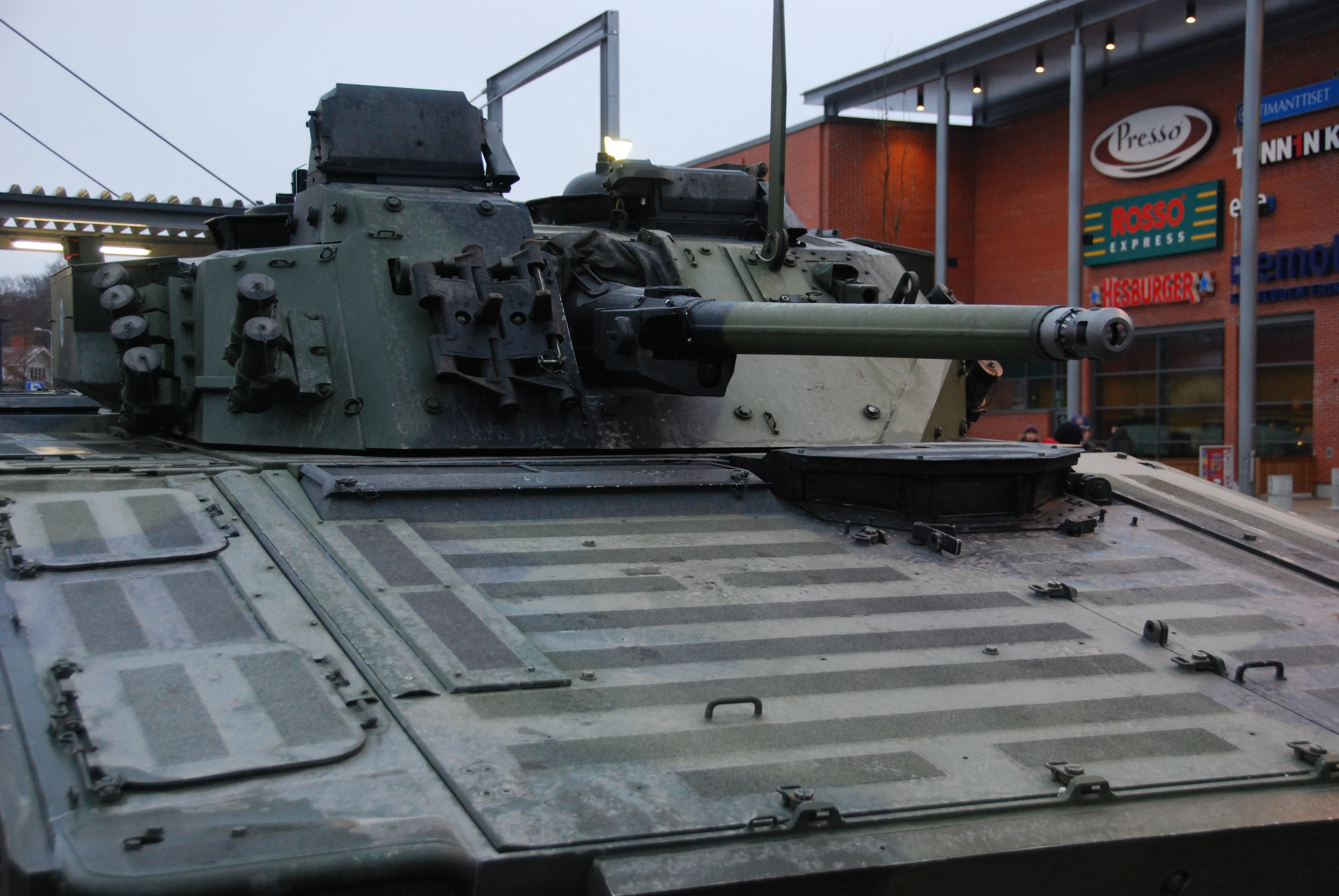 An Mk44 Bushmaster II on a CV9030 at the Finnish Independence Day Parade, 2009.